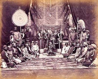 The young prince sits in the centre of his guddee or royal seat, which is of velvet richly embroidered with gold. Behind him are four servants, two of whom hold merchauls of peacocks' feathers, and the chouree of yak's tail hair. In two rows on either side of the Rajah, the nobles and sardars of the state are seated, who may be relatives, or officers in various parts of the state services.